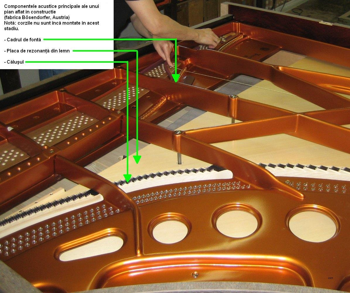 View of a piano being built at the Bösendorfer factory, Austria. Comments added to distinguish the main components